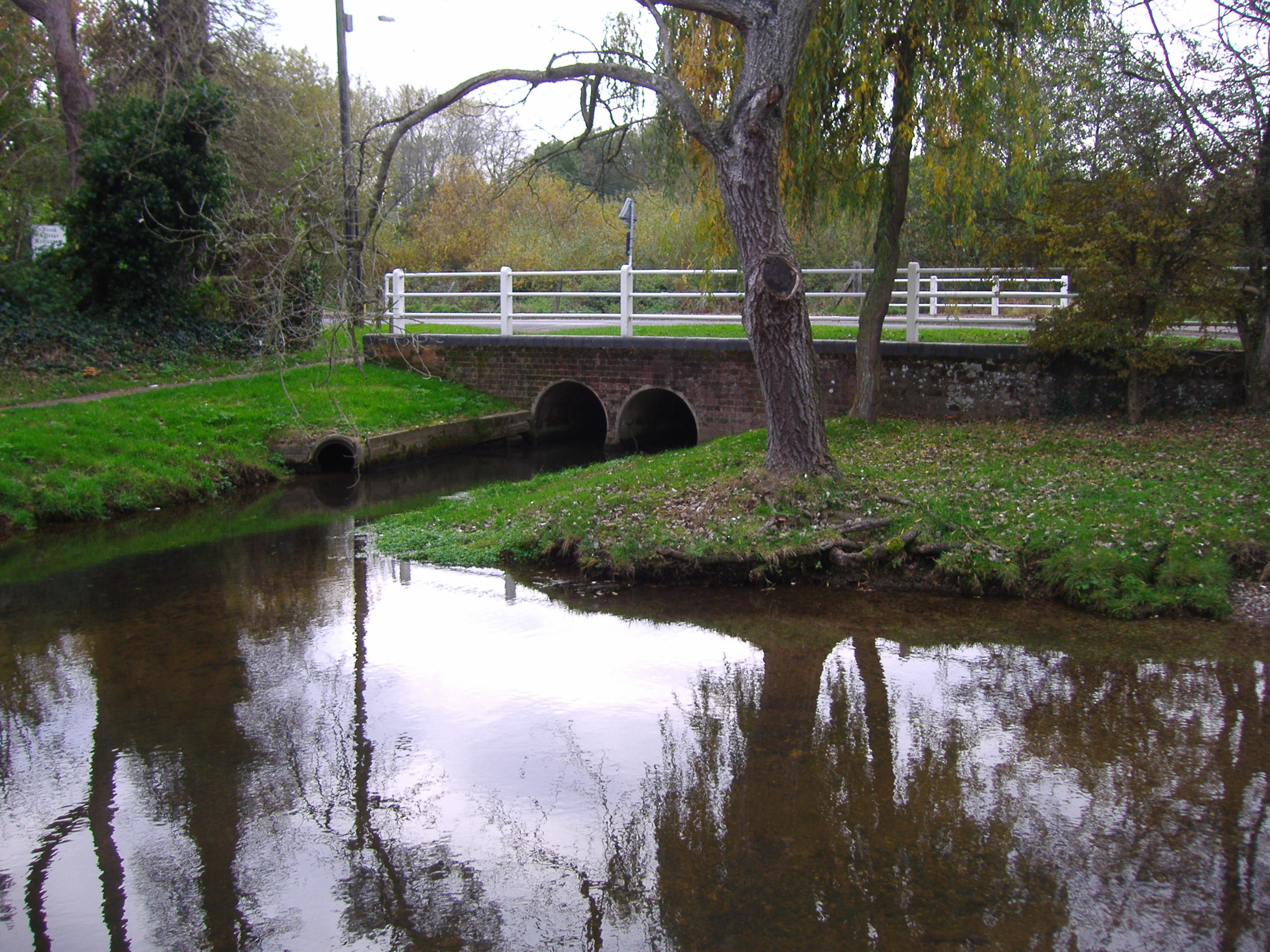 A Digital Photograph of the River Hor at Horsham St Faith taken on the 2nd November 2007 by stavros1